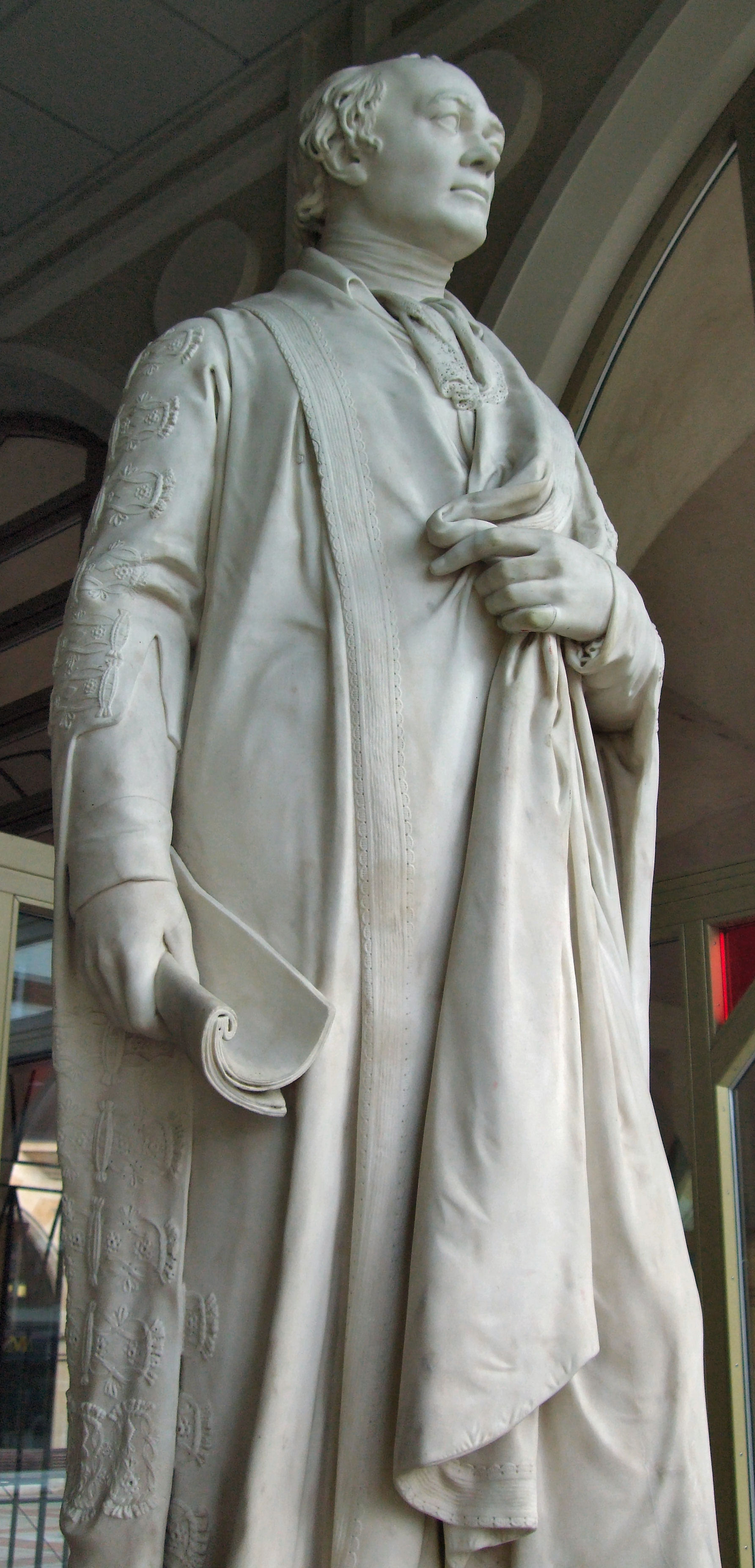 Statue of Spencer Perceval, Guildhall, Northampton, England, by Sir Francis Chantrey, 1817